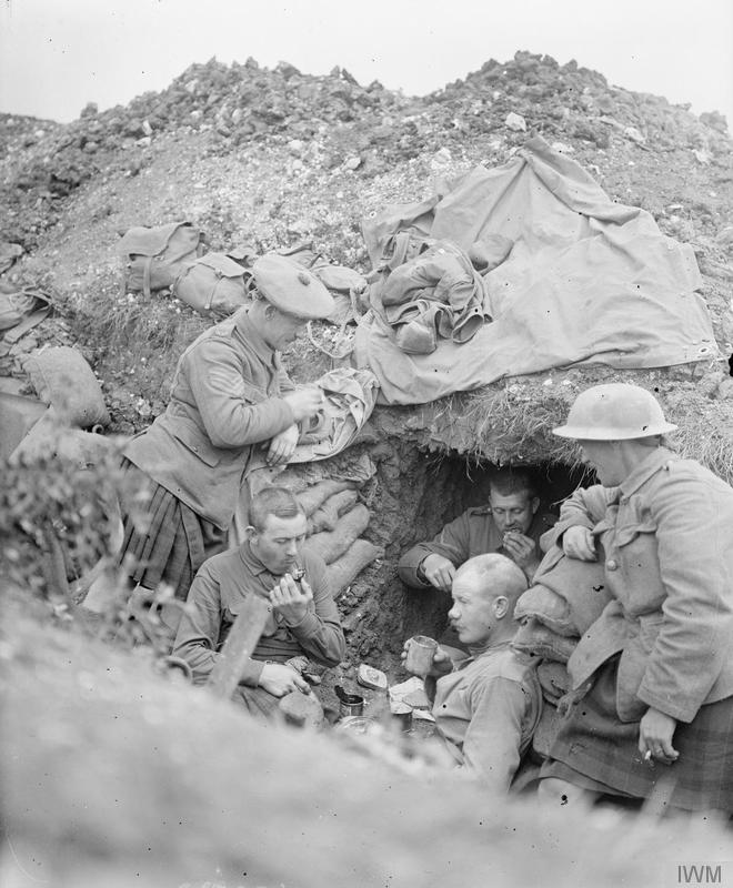 The Battle of the Somme, July-november 1916 Cameronians (Scottish Rifles) having a dinner in a dugout in a trench at Contalmaison